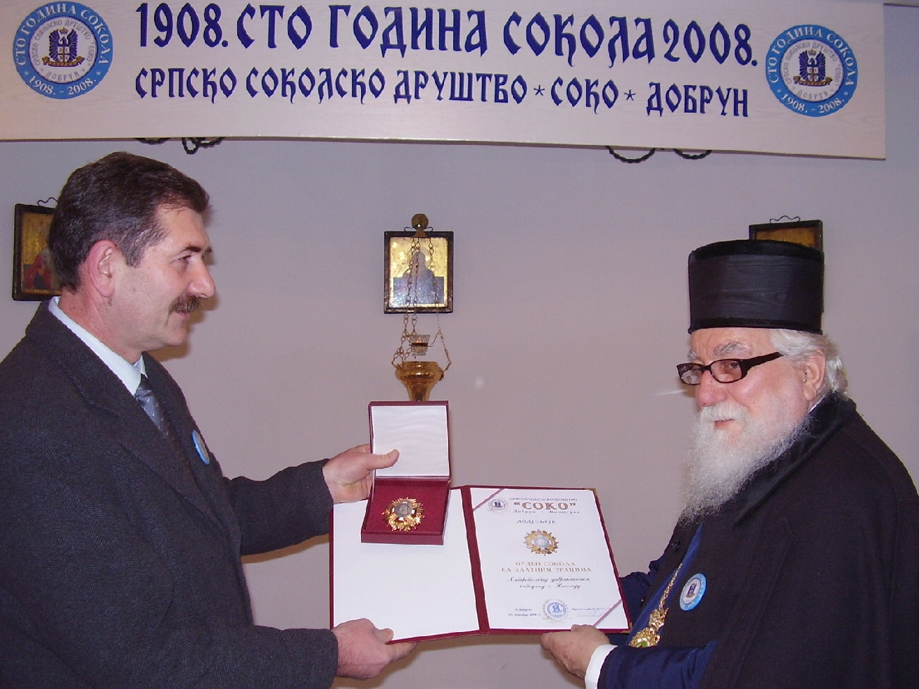 SSD Soko